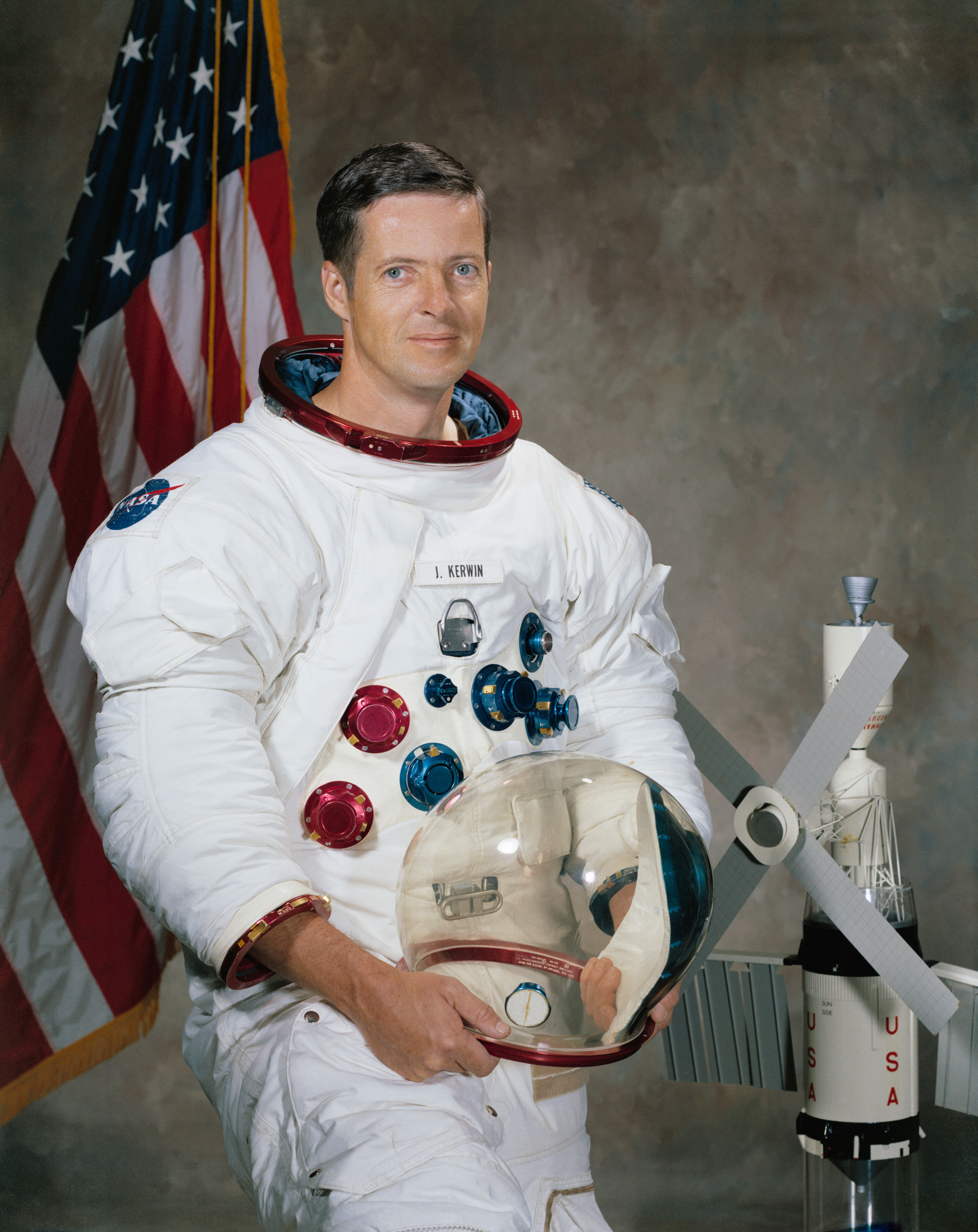 Portrait of Astronaut Joseph P. Kerwin, in spacesuit and holding helmet.